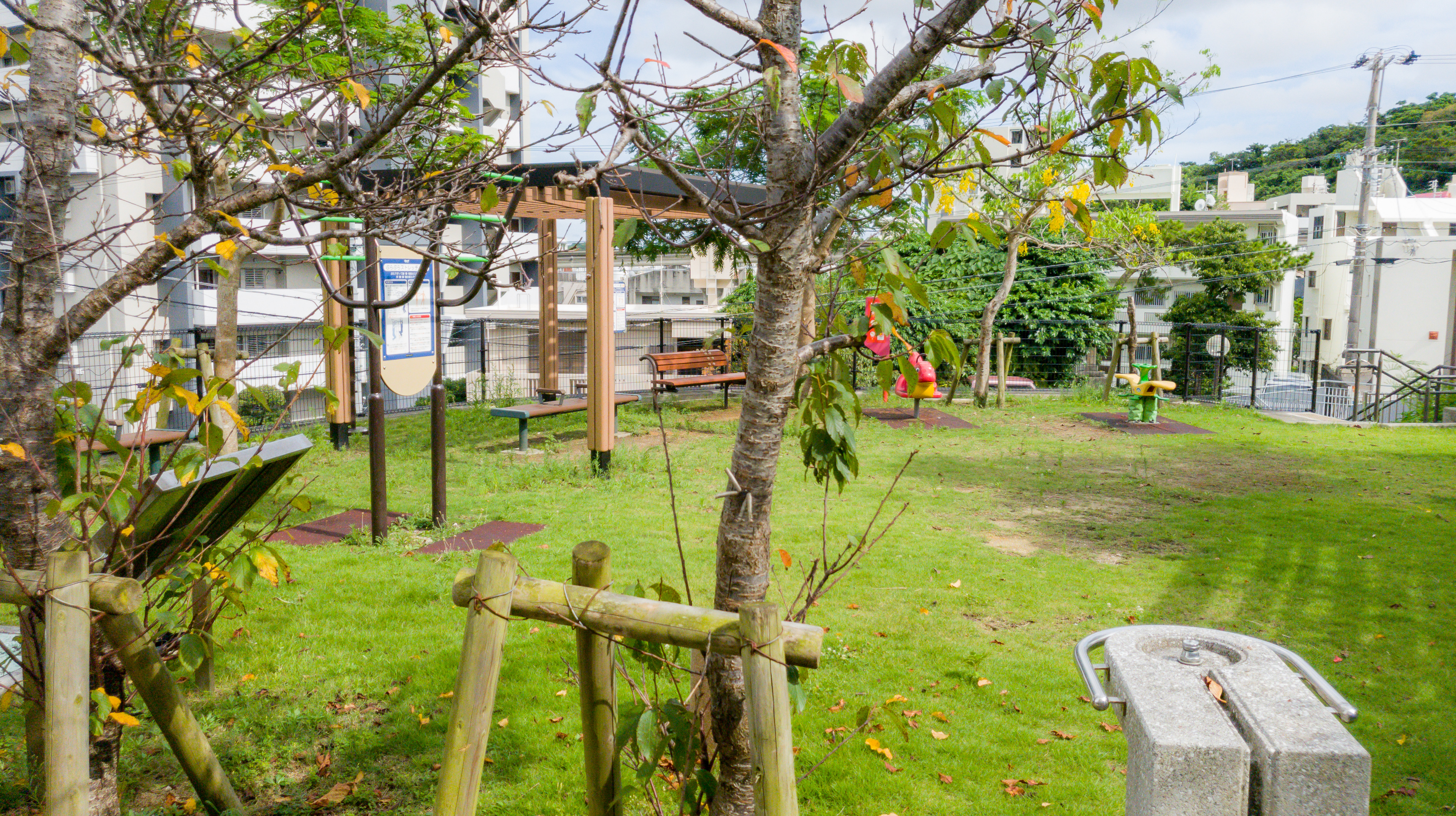 The toddler play area and adult exercise equipment in Yamashita First Cave Site Park.